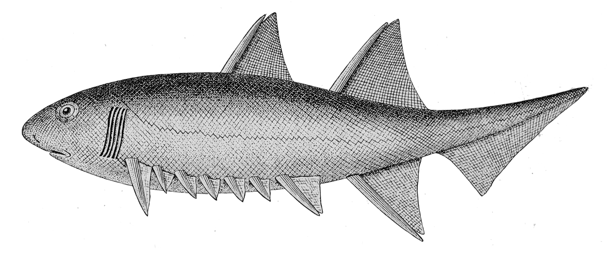 Historical life reconstruction of Climatius (= Euthacanthus) macnicoli (POWRIE, 1864), an acanthodian from the Lower Devonian Old Red Sandstone of Scotland.